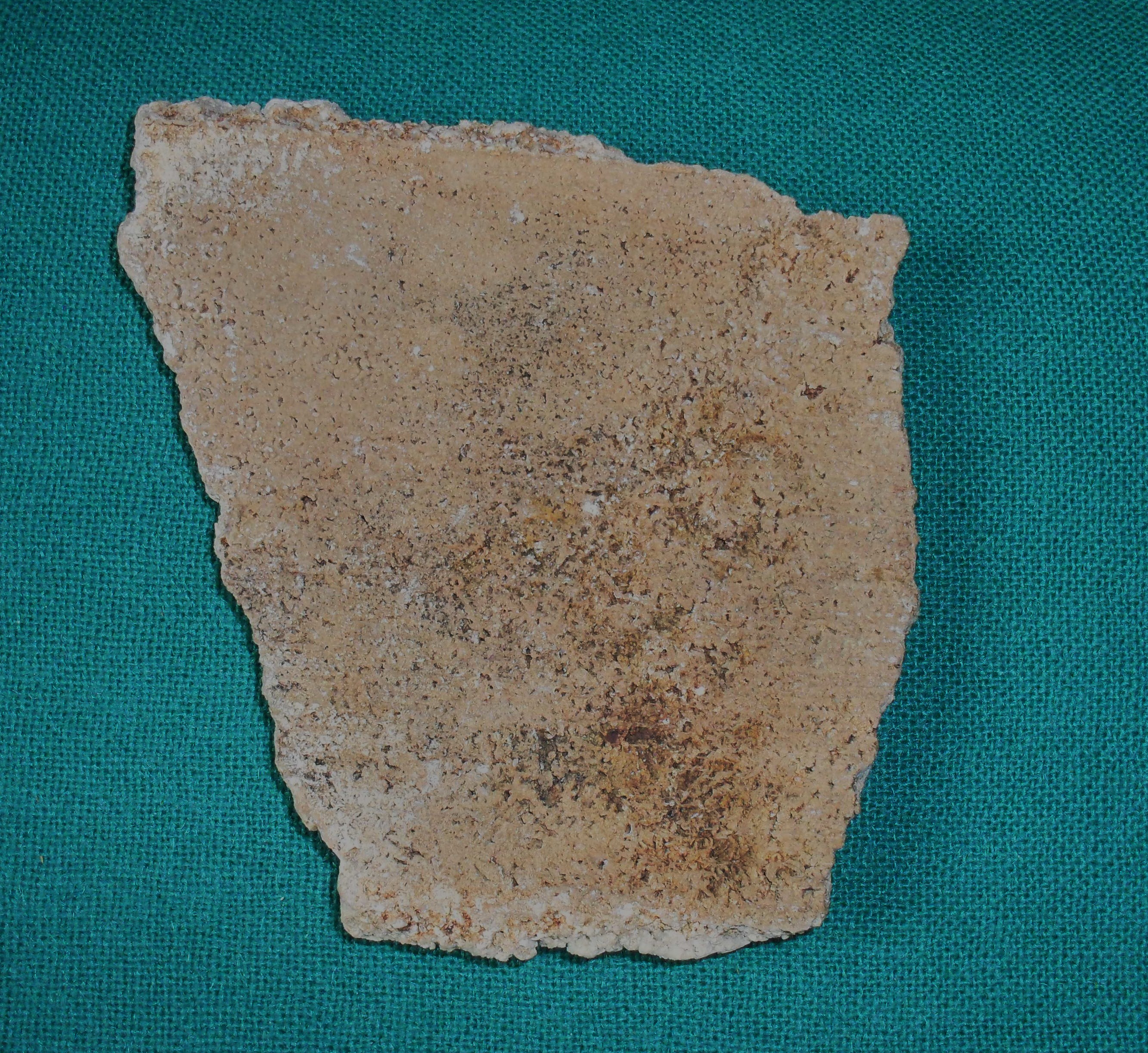 Little sample of dry et compact plate of tartar crystals (Potassium bitartrate) with common impureties (coming from wine during his maturation), called in french "tartre de vin" , "tartre des tonneaux", "tartre des barriques". Size : 10 cm x 10 cm x 12 cm X 4 cm with a thickness around 1 cm. It's the side more tarnished and more brownish lookink slightly curved wood. Before the cleaning of the empty barrel, the winegrower has to break the dry layer of tartar. Collection André Kloecklé, provenant du nettoyage annuel de grand fût en bois du viticulteur Greiner-Schleret à Mittelwihr in Haut-Rhin (Alsace). The right side is seen in File:Tartre de vin d'Alsace.jpg.